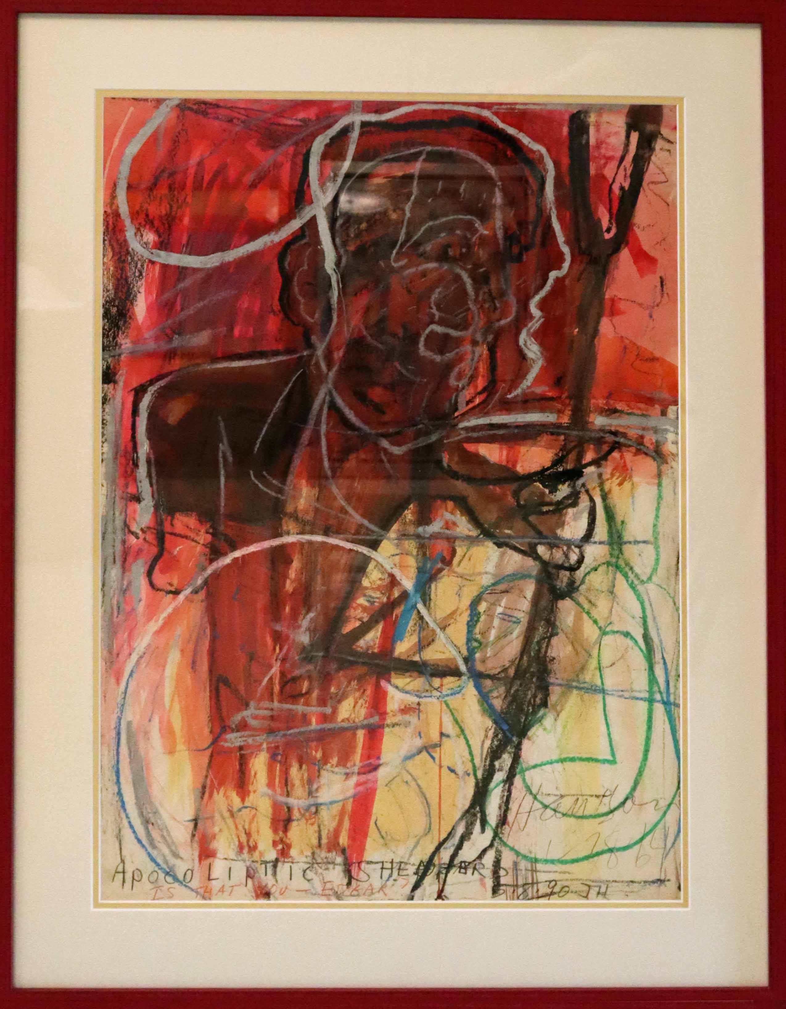 "Apocalyptic Shepherd , Is That You - Edgar?" July 8, 1964 / May 8, 1990. Mixed Media on Paper.